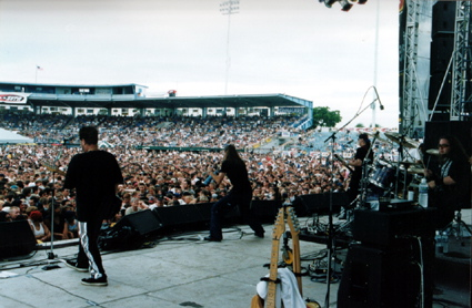 Crease live, from Zetafest 1999